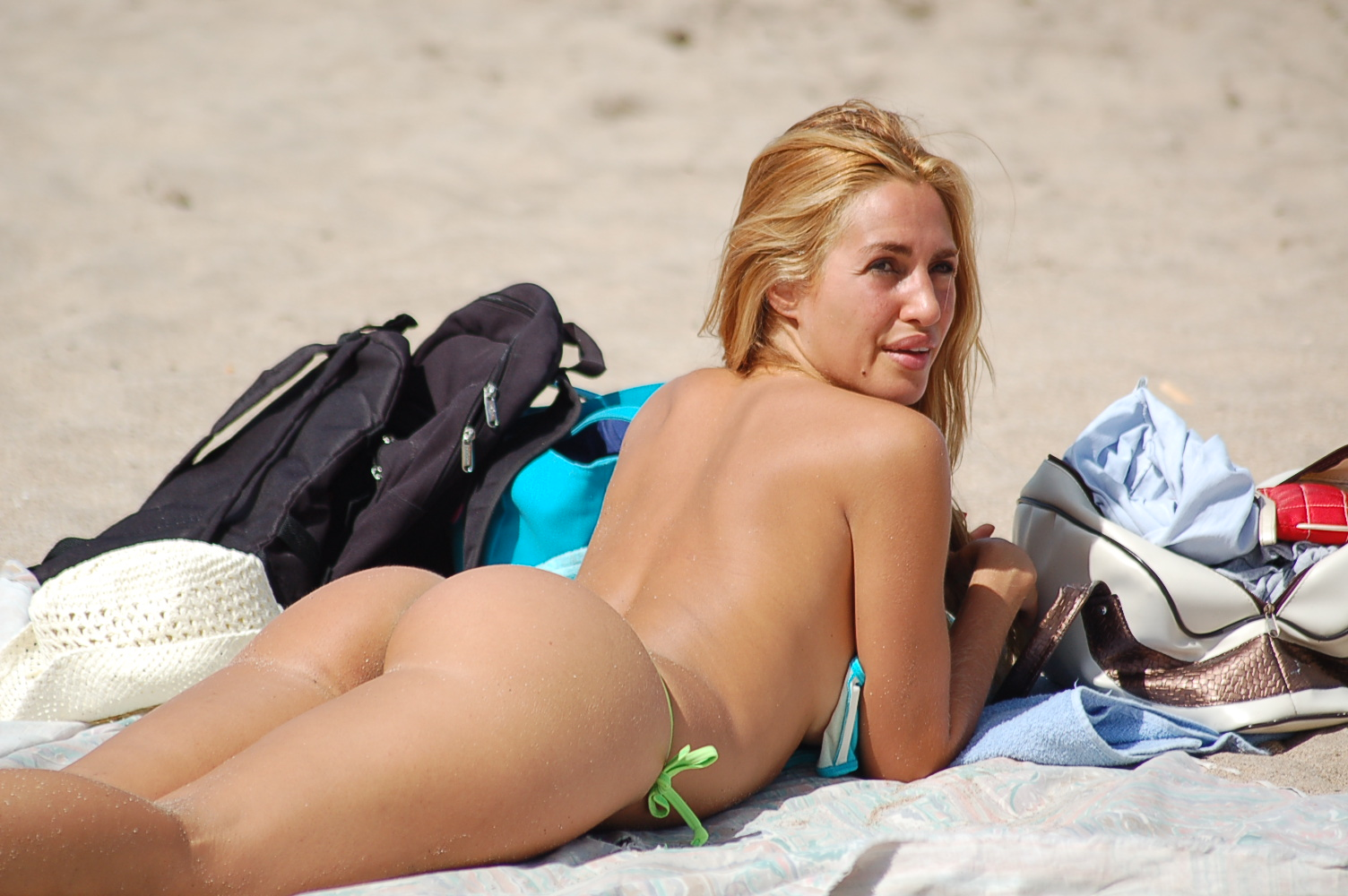 Blonde Woman at the beach at San Remo.